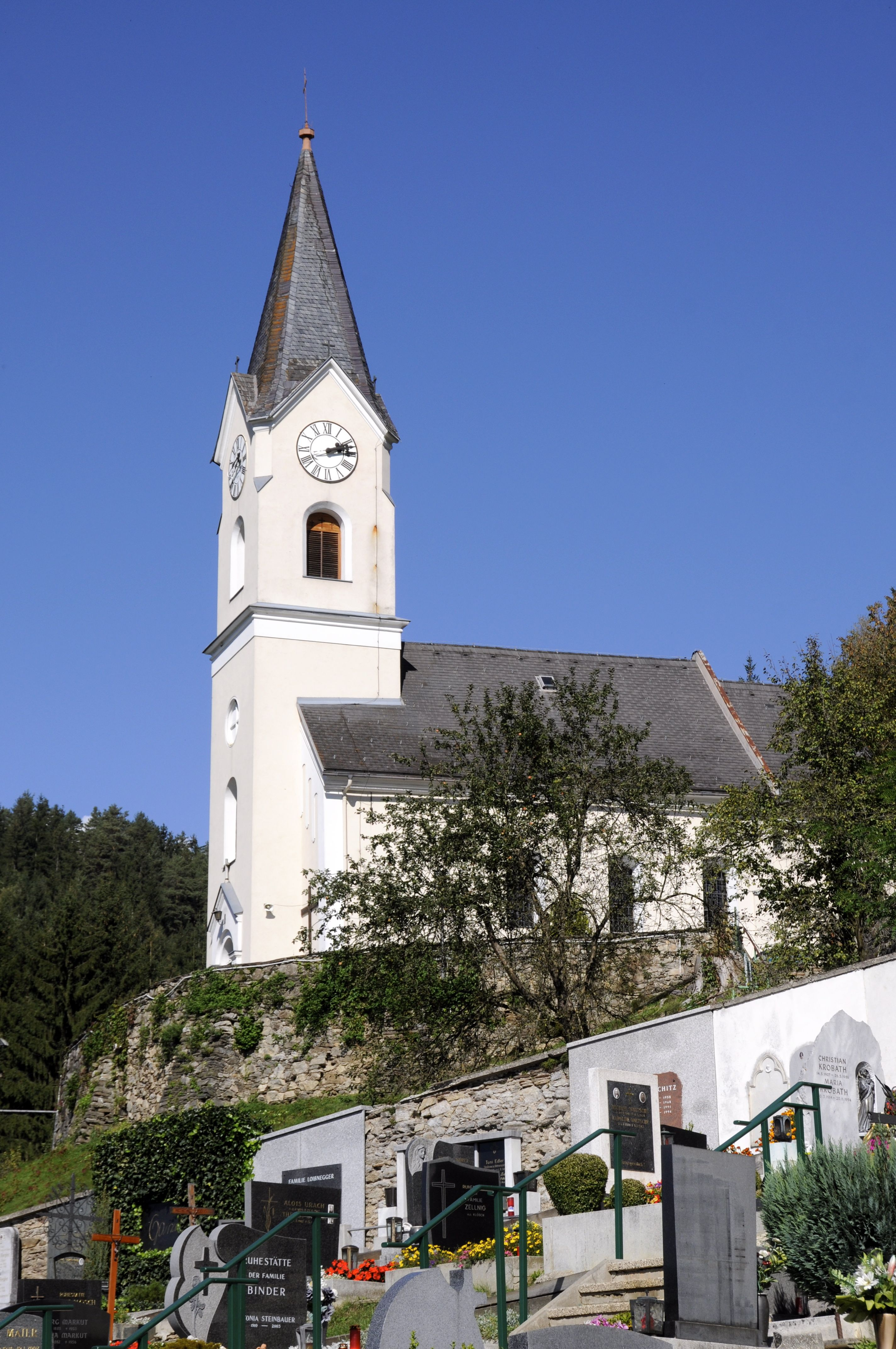 Parish church Saint Mark in Ettendorf, municipality Lavamünd, district Wolfsberg, Carinthia / Austria / EU